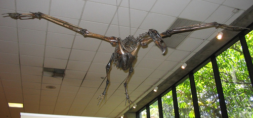 The huge, now extinct, condor, hangs in the air like some sinister bird-god of the plains.